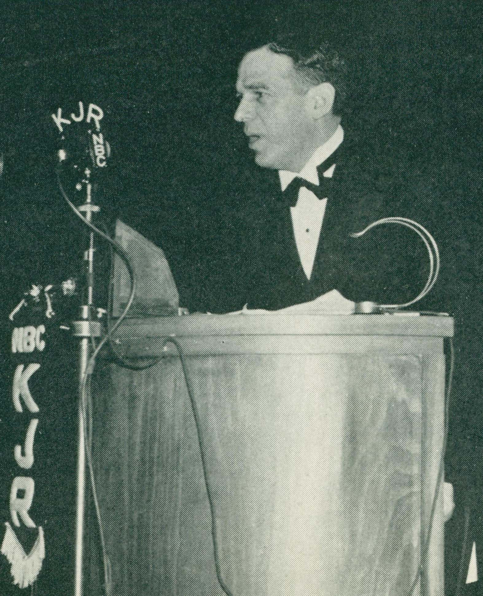 In this photo Ralph Townsend is delivering a speech at a town hall meeting at the Music Hall Theatre in Seattle on 13 March 1941.